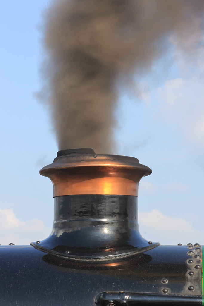 4965 Rood Ashton Hall sits in the sunshine making smoke and waiting for departure time.